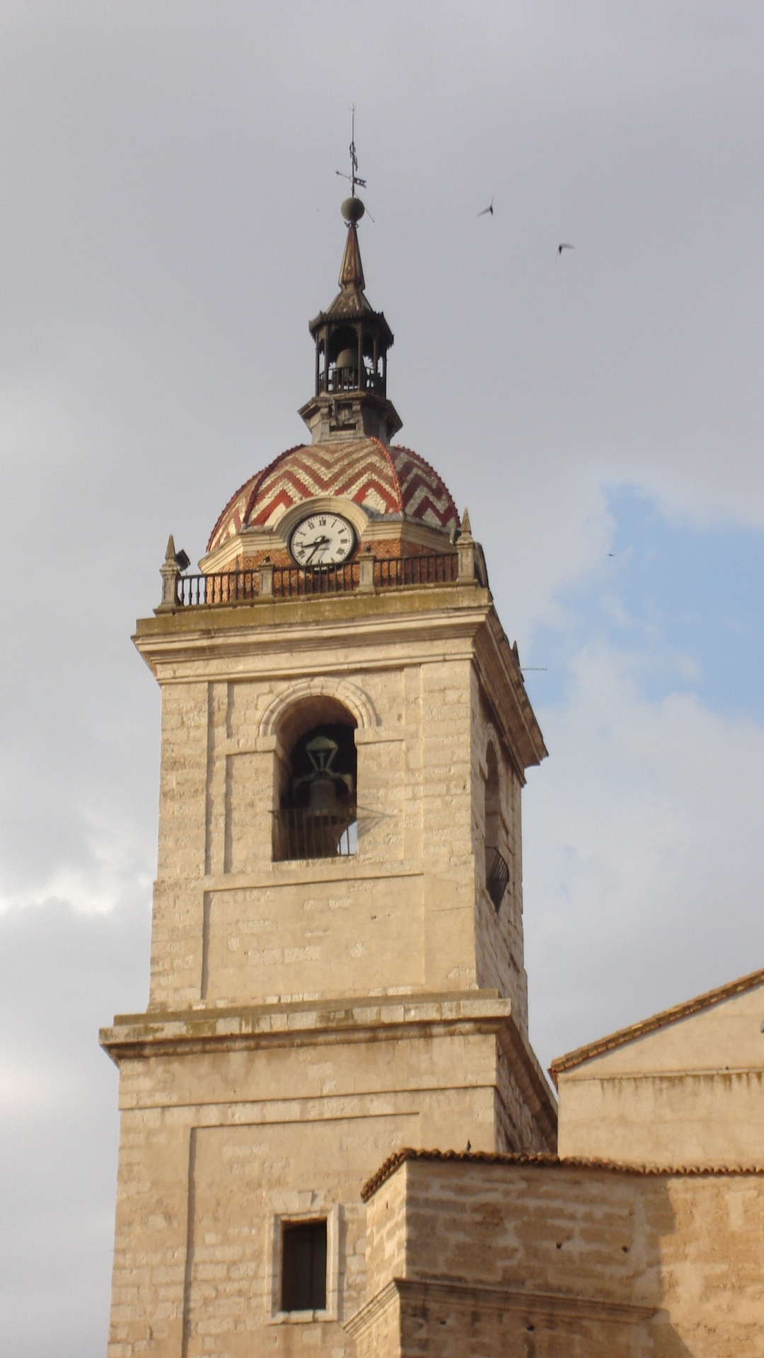 Tower of Ciudad Real's Cathedral.